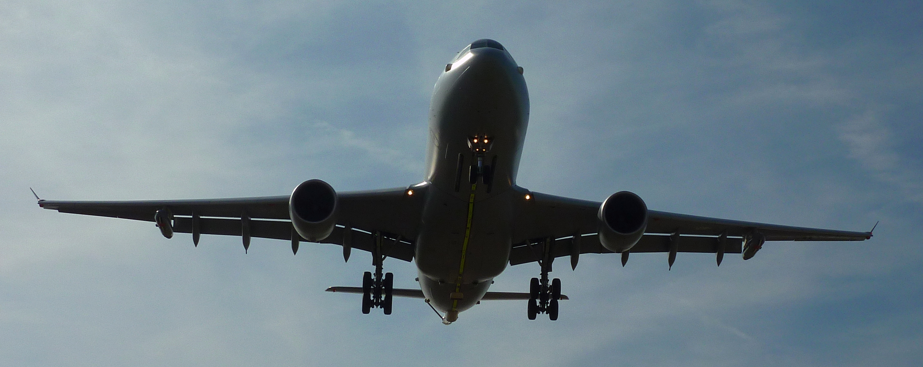 Royal Australian Air Force Airbus A-330-200 MRTT about to land at the Getafe Air Base (Spain) after a test flight.